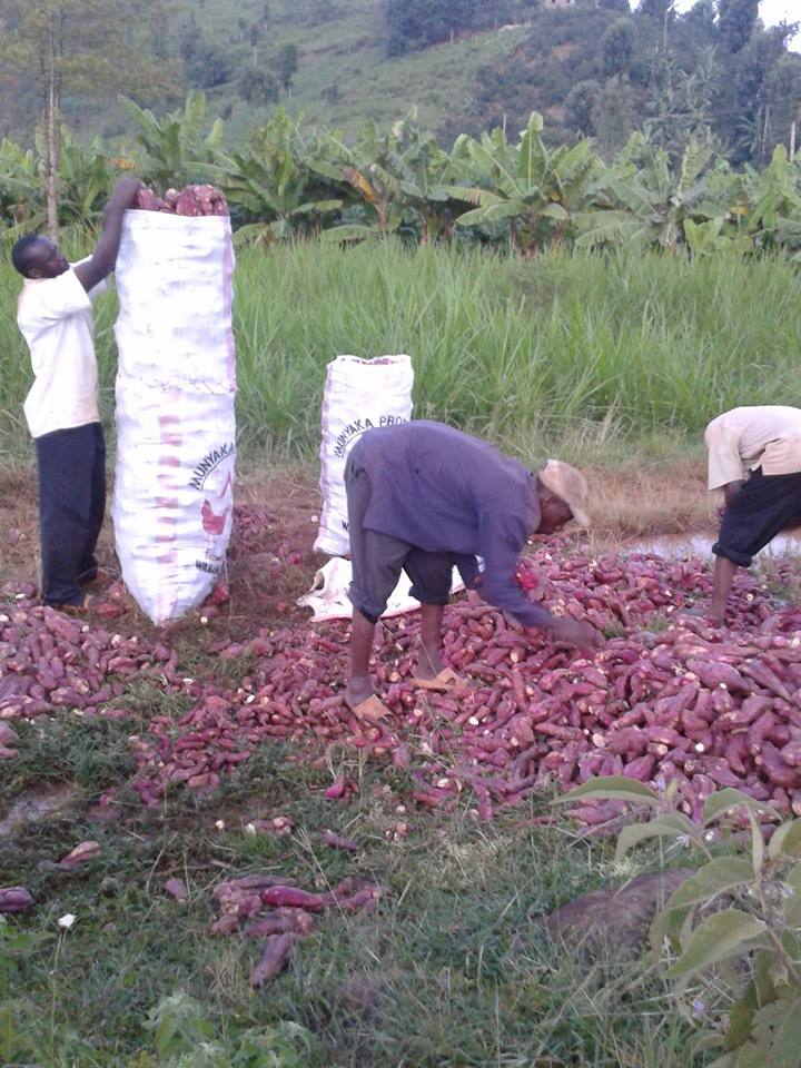 Packing sweet potatoes in huge bags This is an image of "African people at work" from Kenya